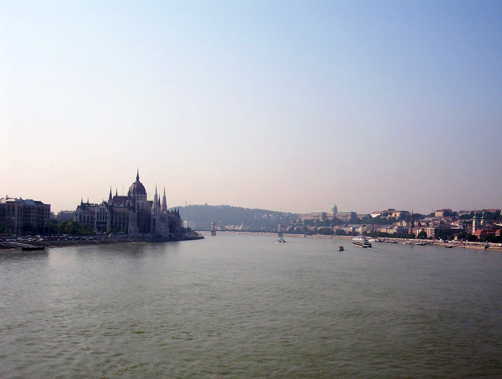 Budapest with the Danube in foreground, looking south from Margit Bridge.